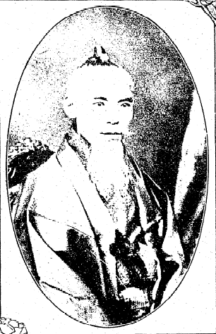 Tsuhako Seisei (1816 - 1877)